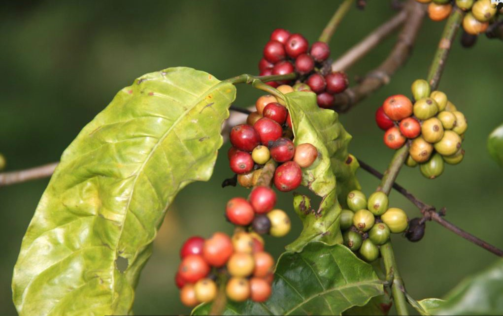 Ripening coffee cherries at a coffee farm in Buon Ma Thuot, Vietnam.